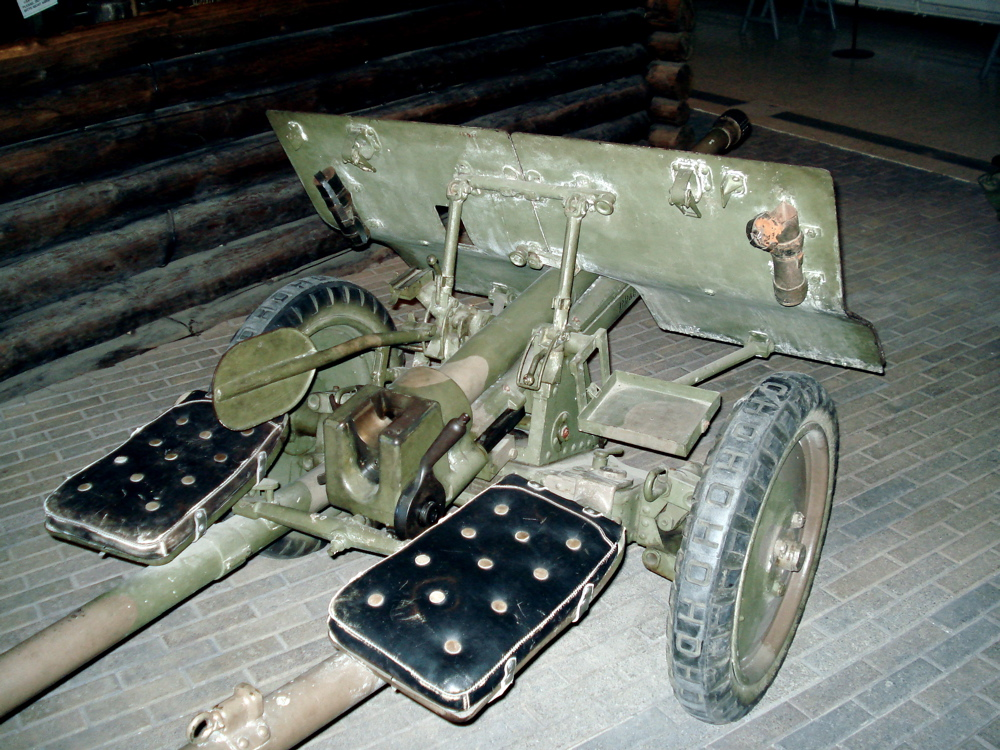 Bofors 37 mm anti-tank gun, manufactured and used by Finland during the Second World War, displayed in Manege Military Museum in Suomenlinna fortress, Helsinki. Photo taken on June 10, 2006. Source: Photo by me, User:Balcer.